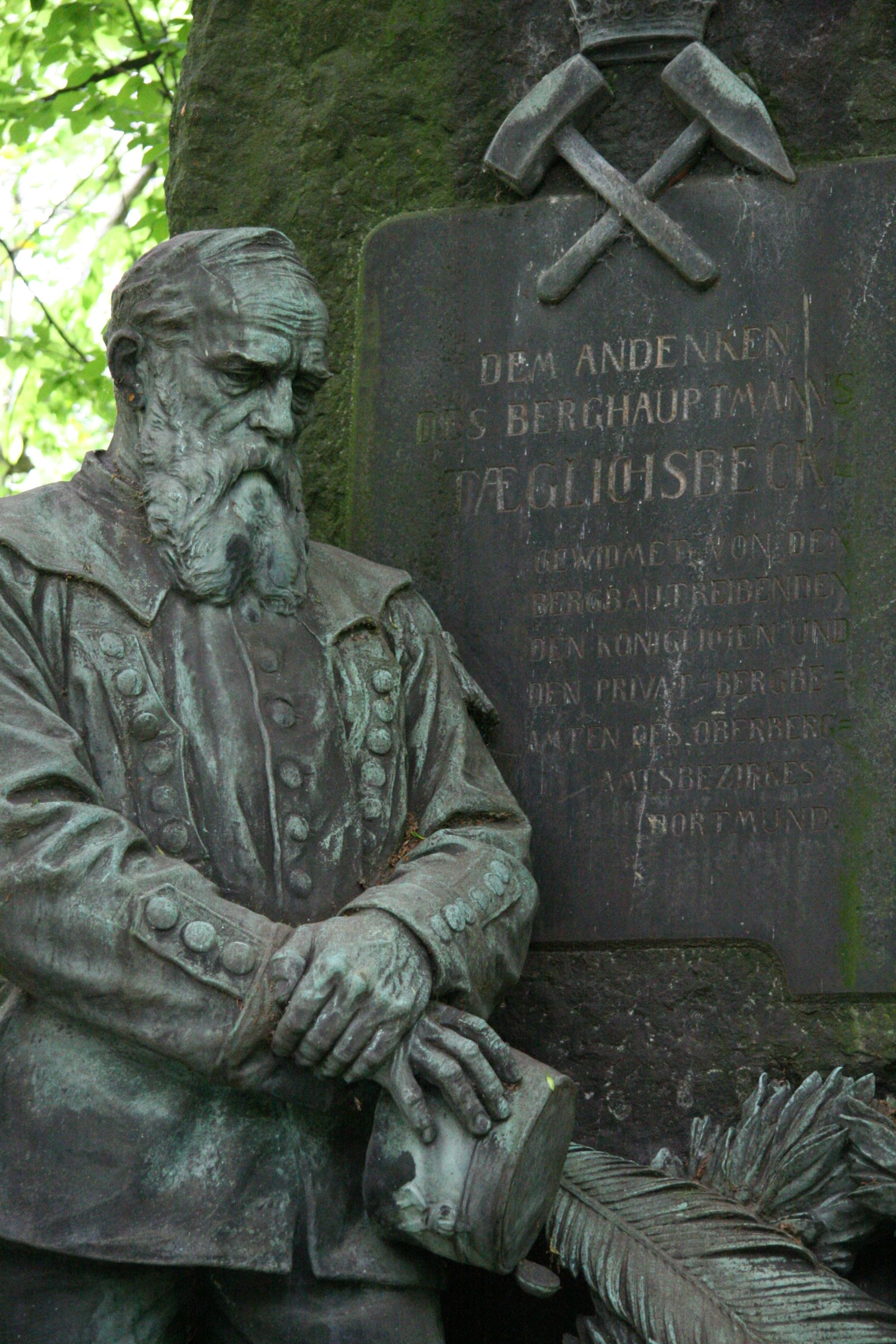 Tombstone on Dortmund's Ostenfriedhof Cemetery, by Clemens Buscher (1855–1916), 1904